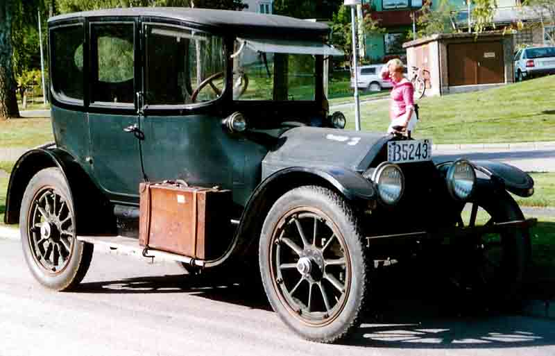 Cadillac Centerdoor Sedan 1914 This center-door body shape is described in Cadillac advertisements as "Sedan (five passenger)"